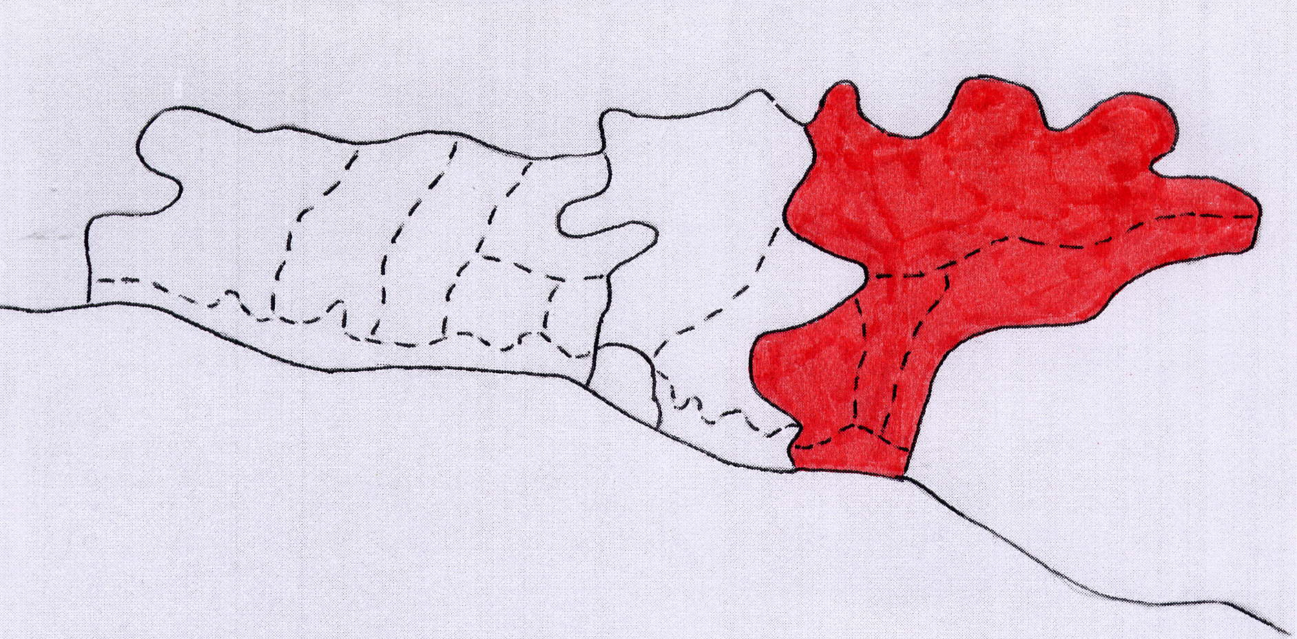 Locator map of the Adler—Adlersky City District (red) of Sochi city, in Krasnodar Krai, Russia. On the Black Sea and international border with Georgia.